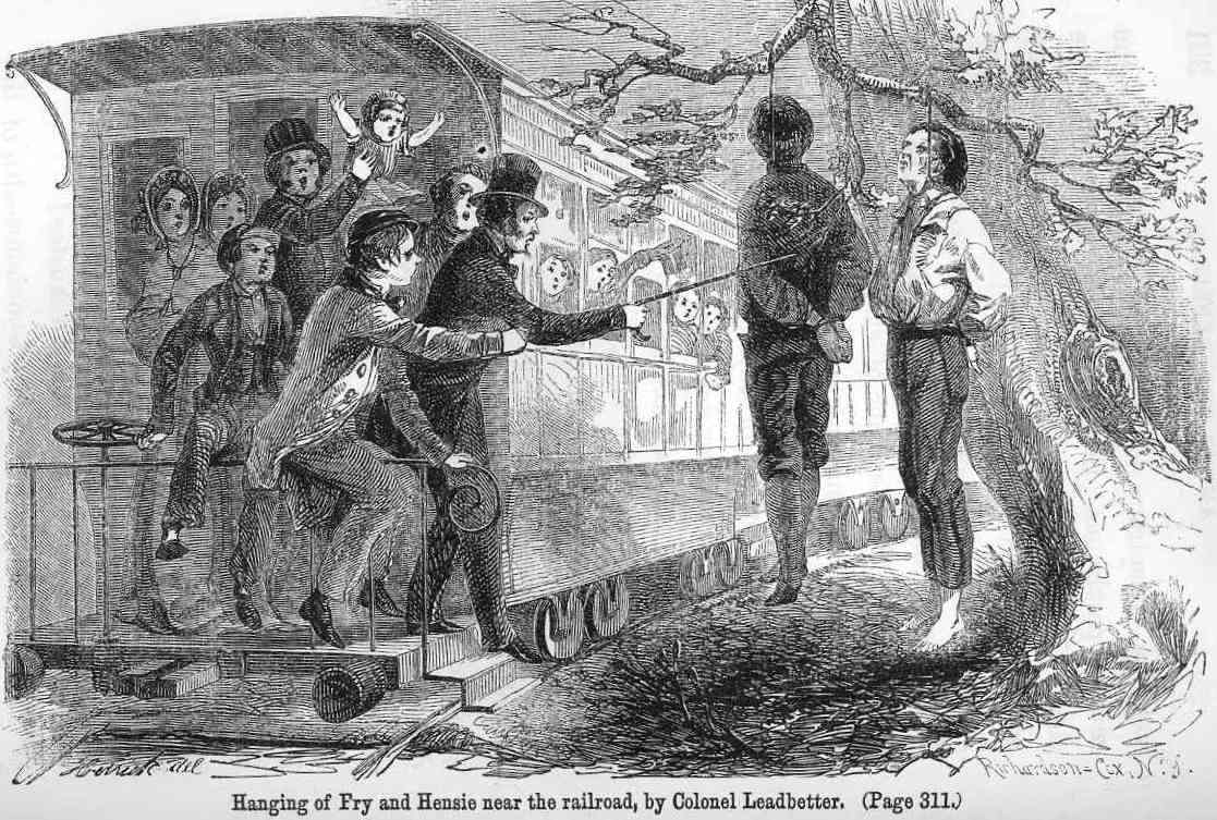 Train passengers prod the bodies of Union supporters "Hensie" and "Fry" near Knoxville, Tennessee, USA in December 1861 at the outbreak of the U.S. Civil War (1861–1865). The two were hanged by Confederate authorities, on the orders of General Danville Leadbetter, near the railroad tracks so passing train passengers could see them. This engraving appears in William "Parson" Brownlow's book, Sketches of the Rise, Progress, and Decline of Secession. Brownlow was confined with several prisoners from nearby Jefferson County who told him of the incident.